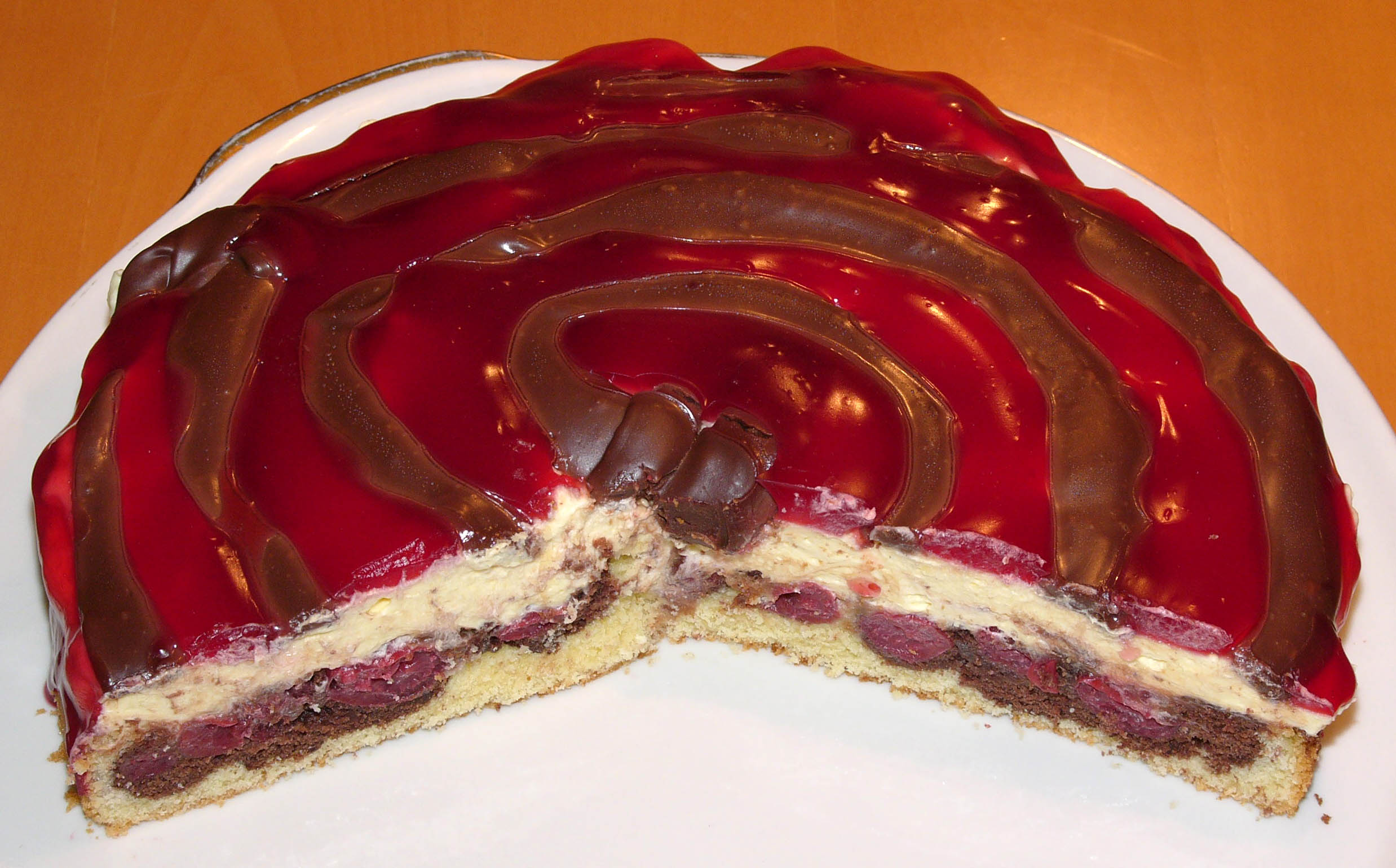 Donauwelle - german pie (round shaped version) - sour cherries with vanilla pudding and chocolate topping